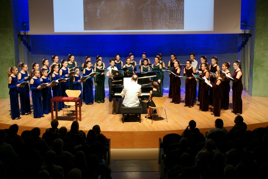 Cor Vivaldi. IPSI School